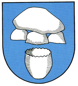 Coat of arms of the municipality of Winkelsett